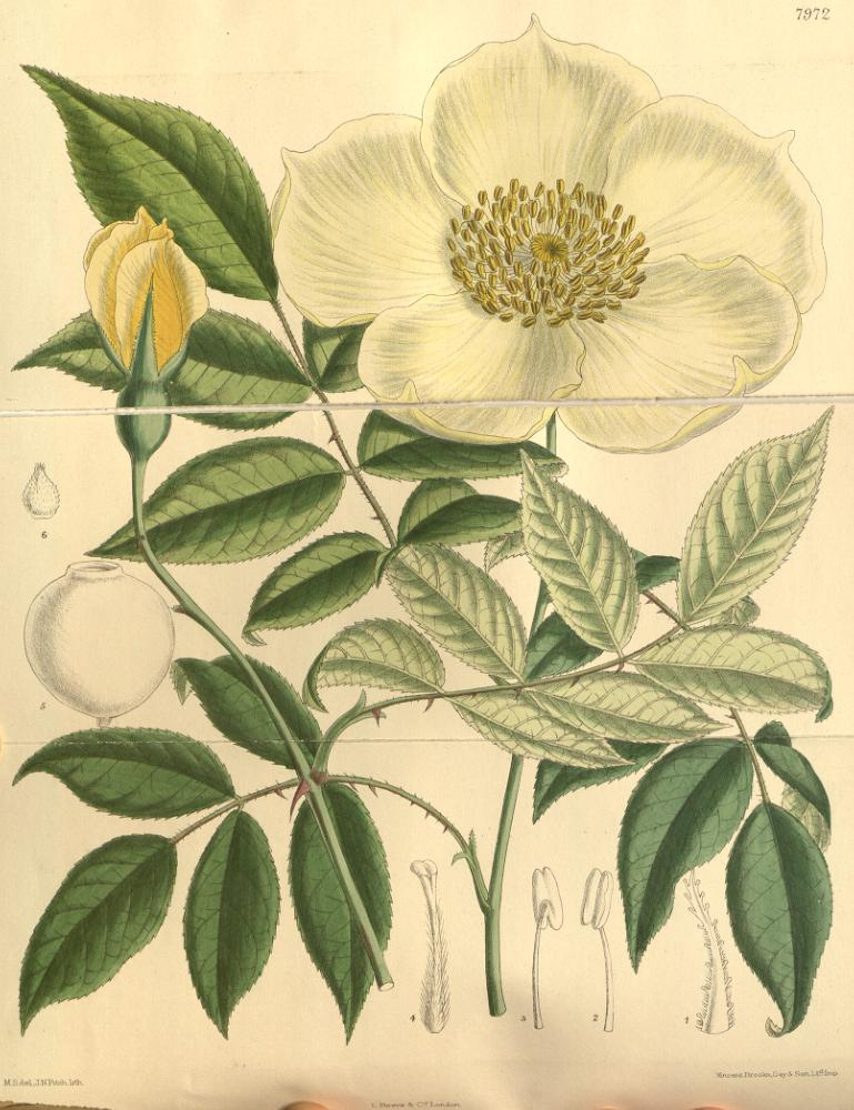 Illustration of Rosa gigantea